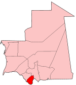 Map of Mauritania showing Guidimaka region.